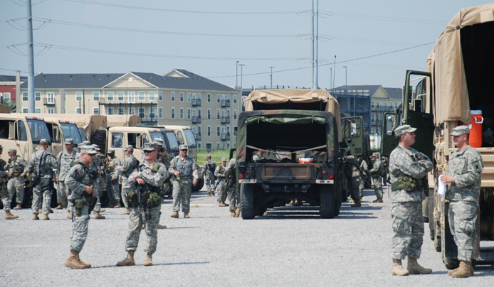 NEW ORLEANS- Members of the Louisiana National Guard’s 256th Infantry Brigade Combat Team stage their vehicles in Lot J next to the Ernest Morial Convention Center. These Soldiers are activated for security missions in support of hurricane operations throughout the state.